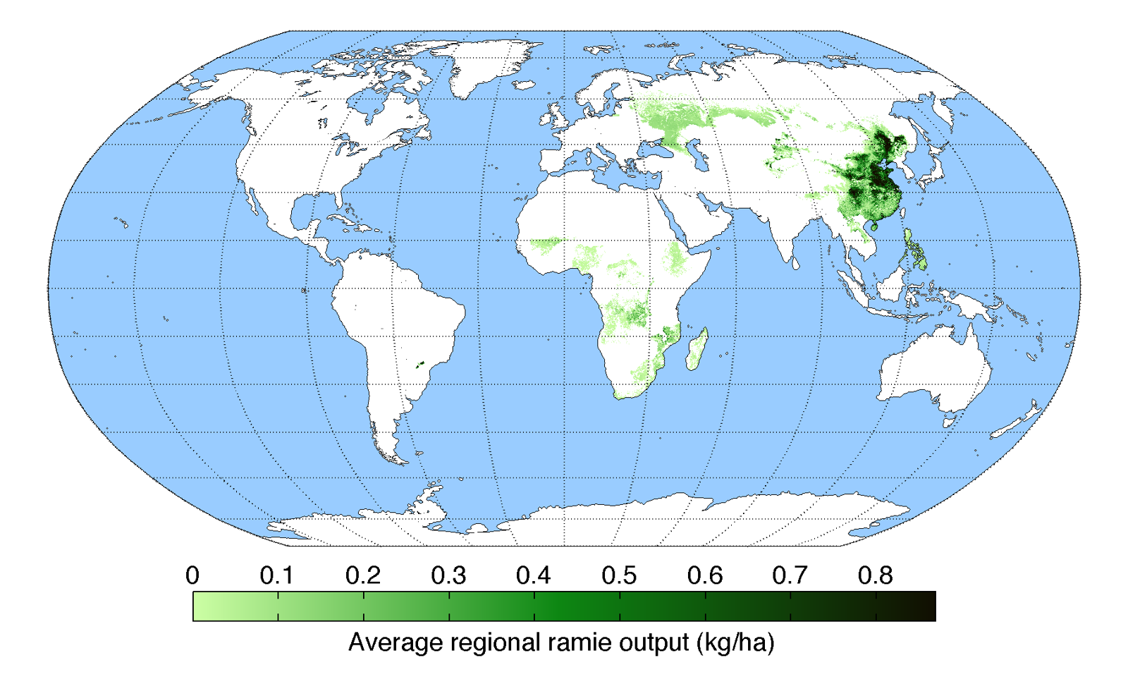 Map of ramie production (average percentage of land used for its production times average yield in each grid cell) across the world compiled by the University of Minnesota Institute on the Environment with data from: Monfreda, C., N. Ramankutty, and J.A. Foley. 2008. Farming the planet: 2. Geographic distribution of crop areas, yields, physiological types, and net primary production in the year 2000. Global Biogeochemical Cycles 22: GB1022